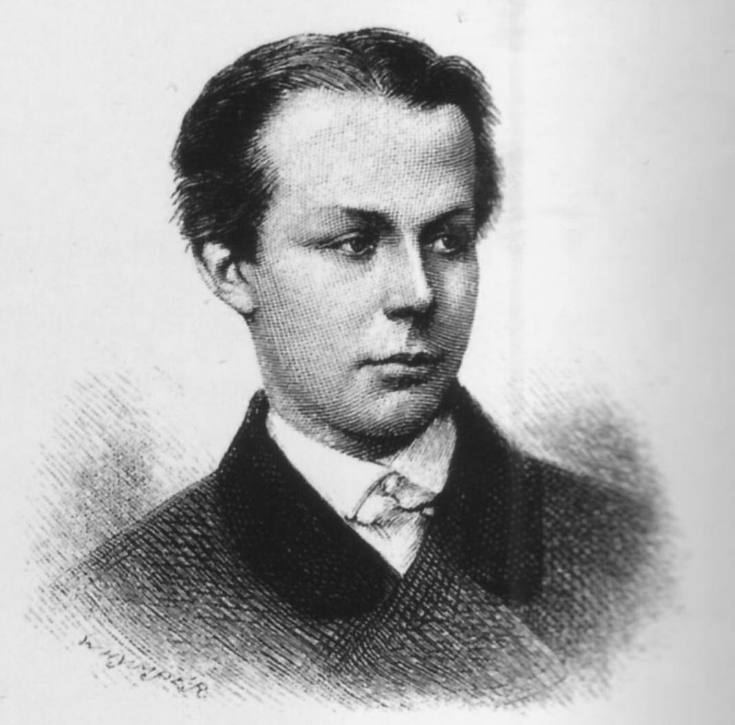 Lord Francis Douglas drawn by Edward Whymper